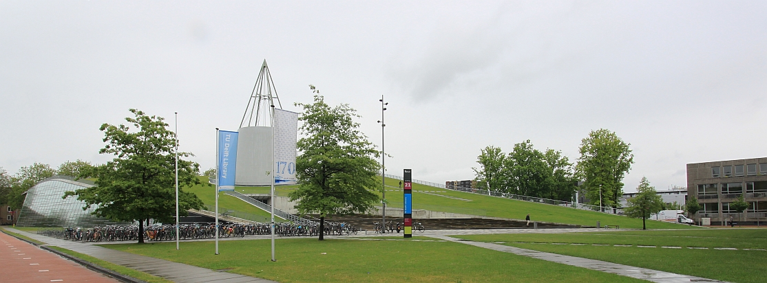 TU Delft: Library, Building No. 21, Prometheusplein 1, 2628 ZC Delft